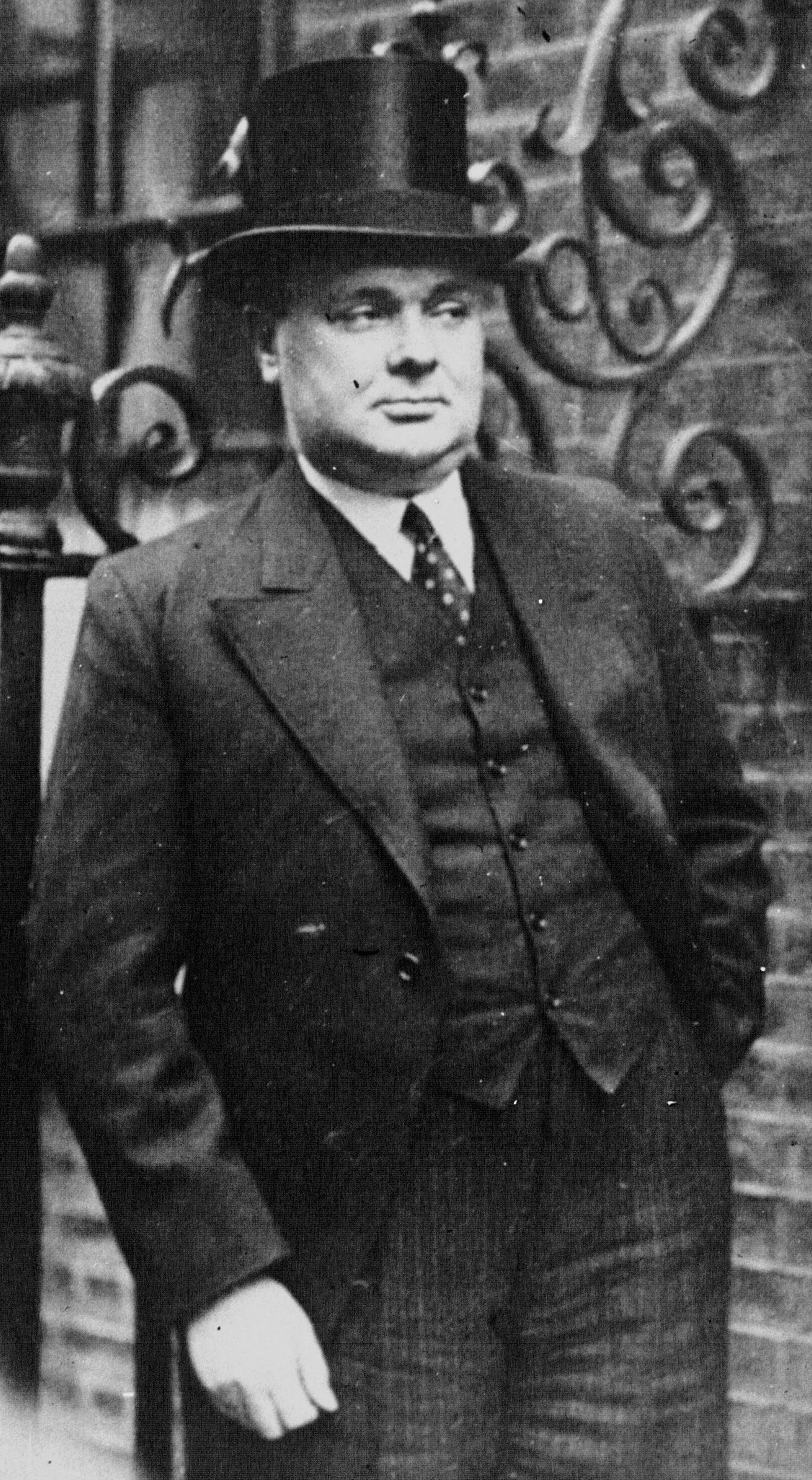 Belgian politician Paul-Henri Spaak (1899-1972) as Minister of Foreign Affairs (1937).